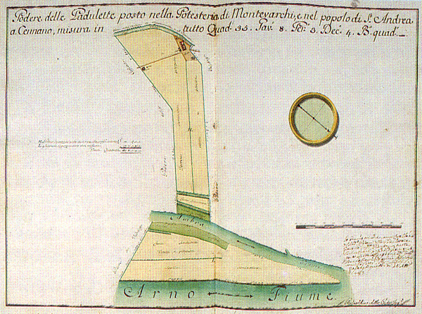 Padulette Farm in Montevarchi owned by the Grand Duke of Tuscany